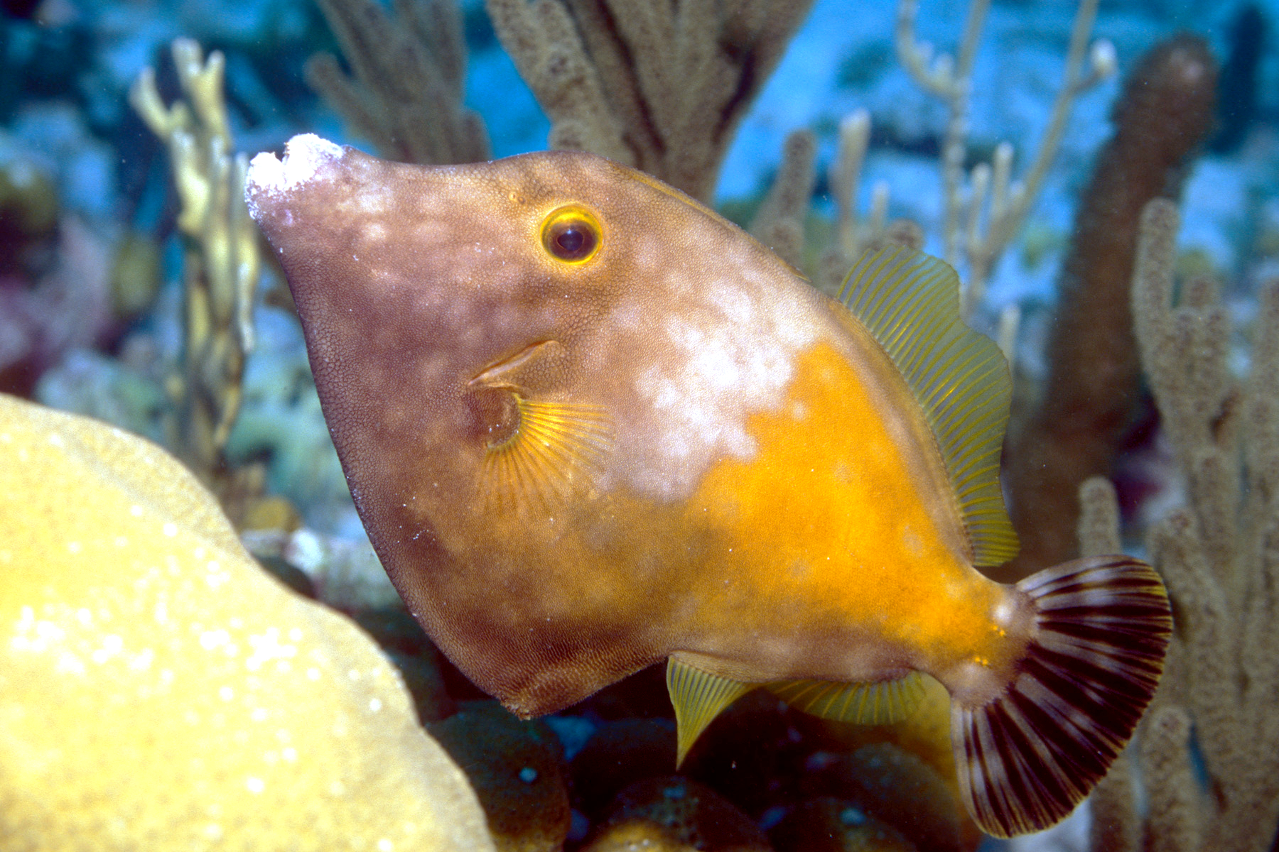 A Whitespot Filefish shows off in the shallow waters of Pink Beach, Bonaire, Netherland Antilles.